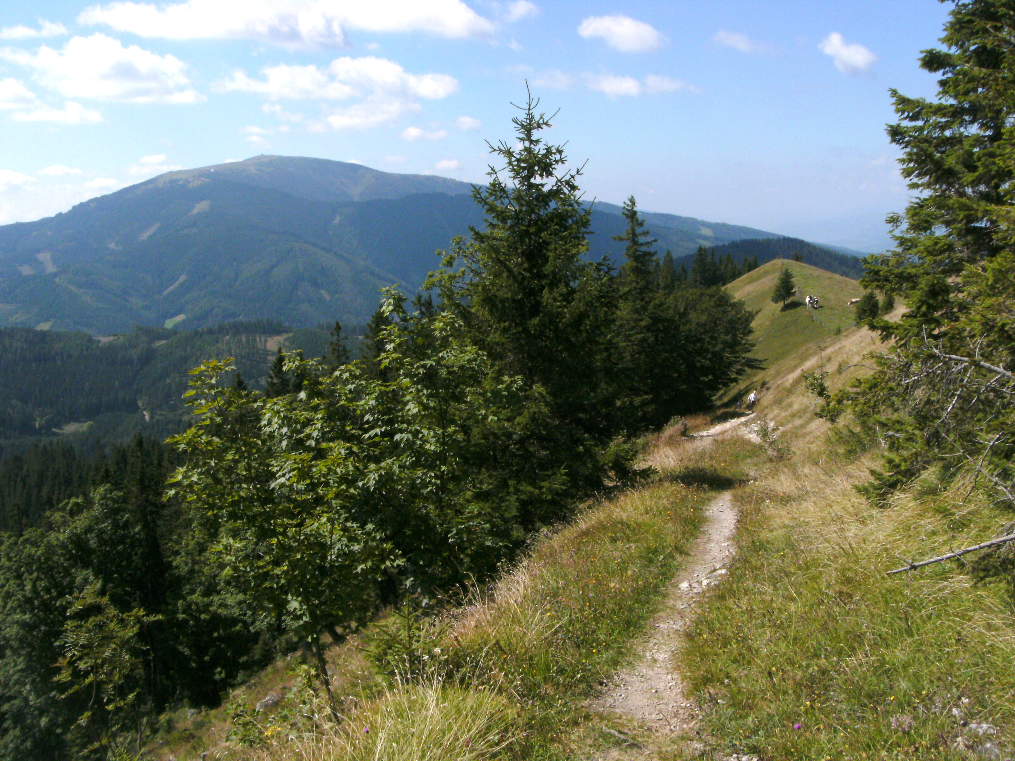 View of Stuhleck (Styria) from Dürrriegel